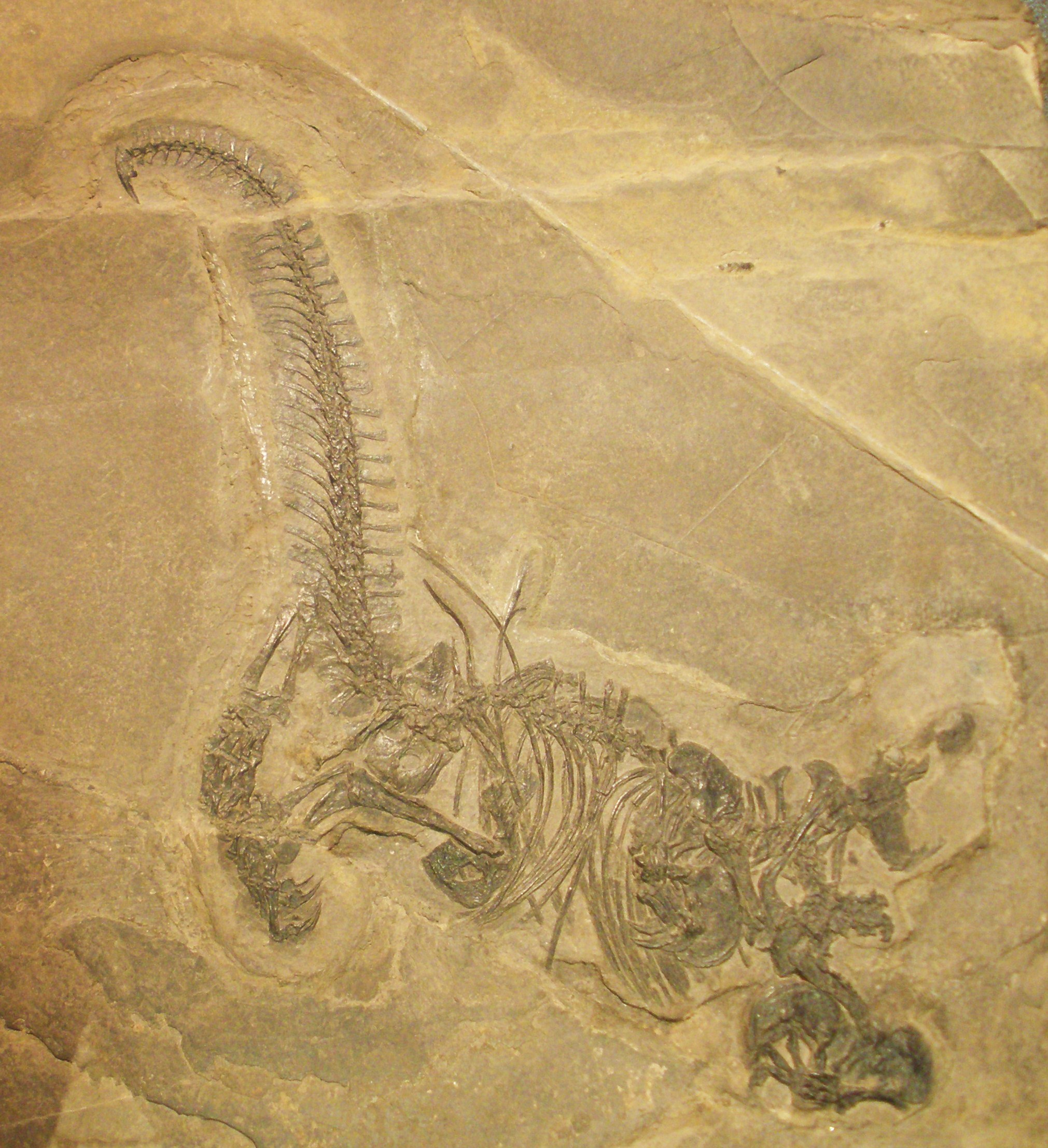 Took the photo at Museo di Storia Naturale di Bergamo